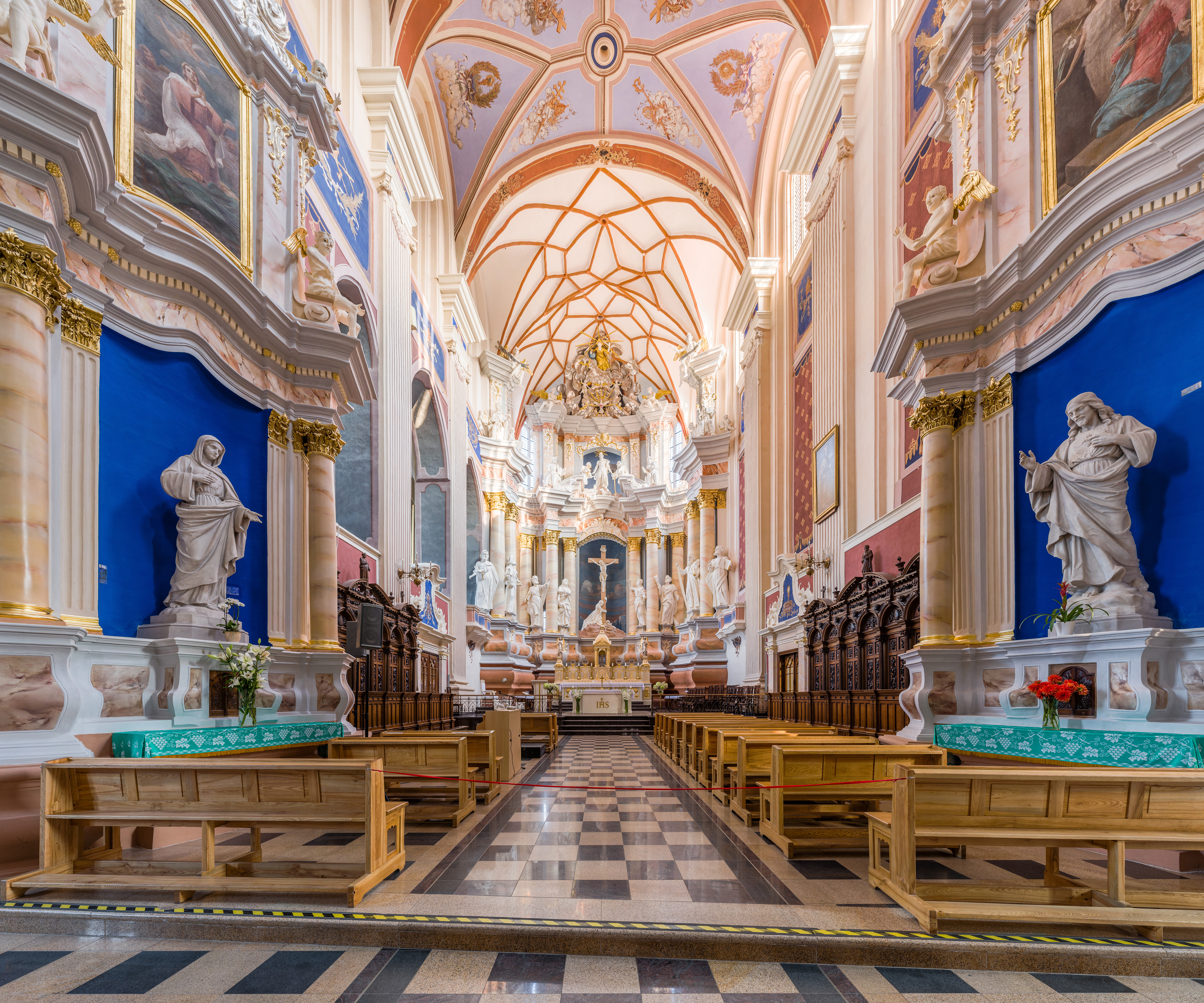 Kaunas Cathedral in Kaunas, Lithuania.